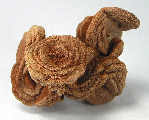 Baryte Locality: Lake Thunderbird area, Norman, Cleveland County, Oklahoma, USA (Locality at ) Size: 10.2 x 7.1 x 5.5 cm. These wonderful "roses" of barite are classic from Oklahoma. This is a large and sculptural one, a series of interconnected rosettes, each measuring to over 4 cm across.